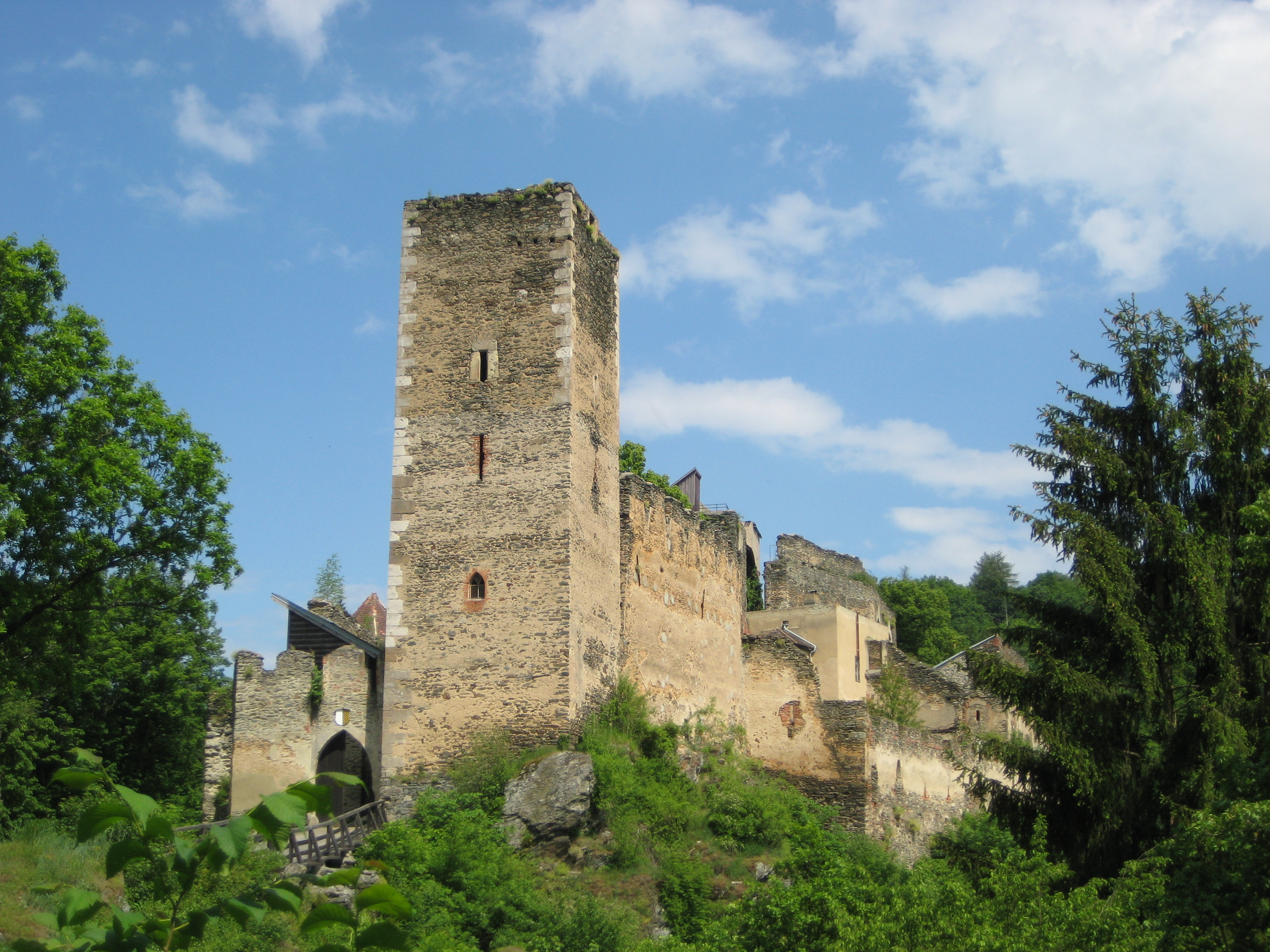 Castle Kaja near Merkersdorf in Lower Austria